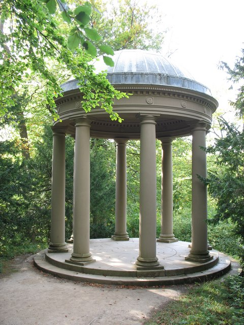 Temple of Fame in Studley Royal Park — a landscape garden park in North Yorkshire. One of the many Follies in Studley Park